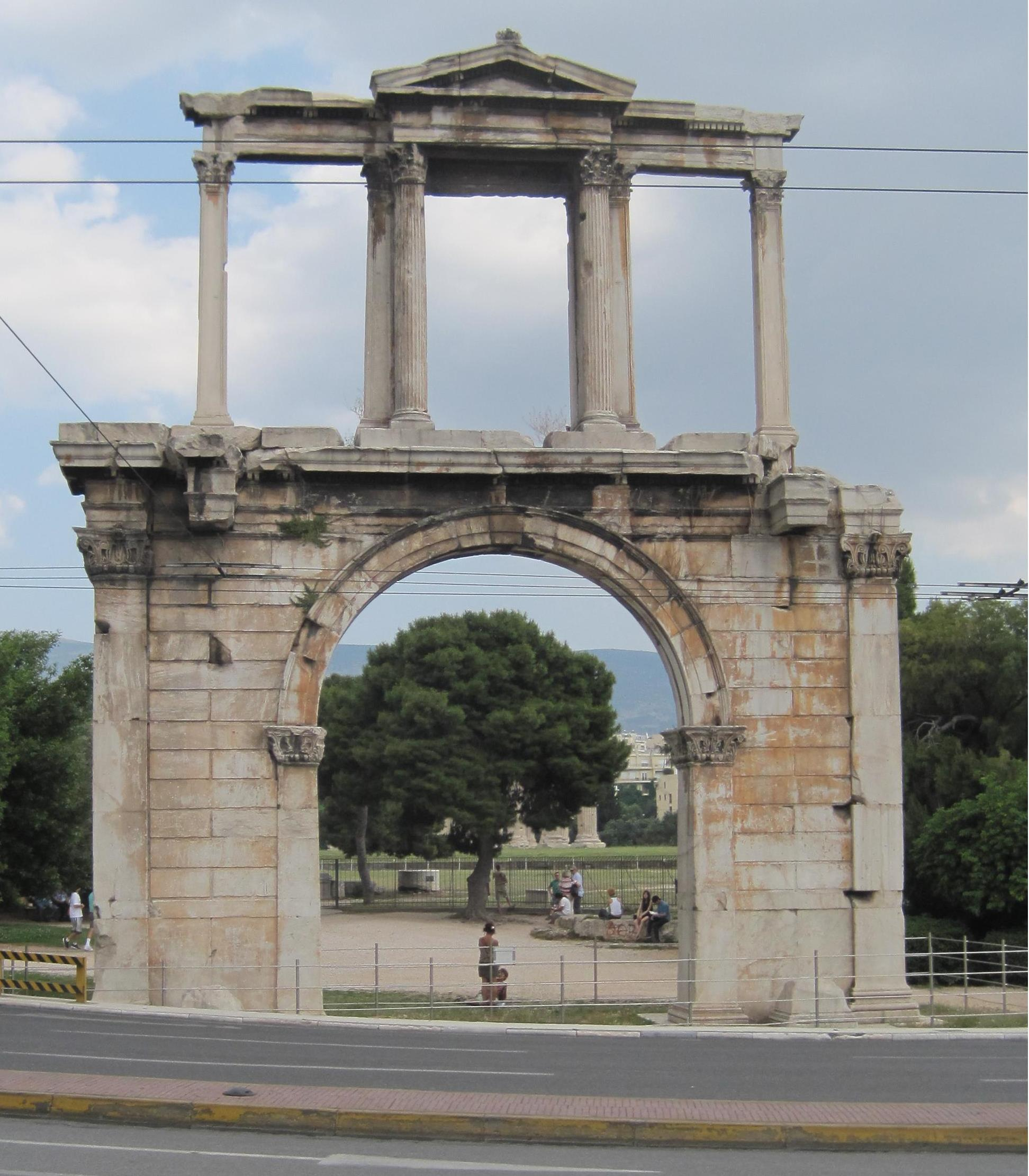 Arch of Hadrian, Athens, Greece